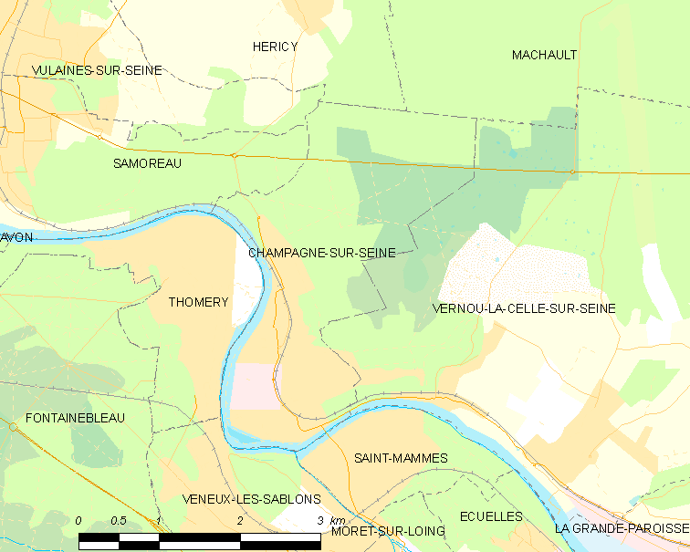 Map of French municipality Champagne-sur-Seine